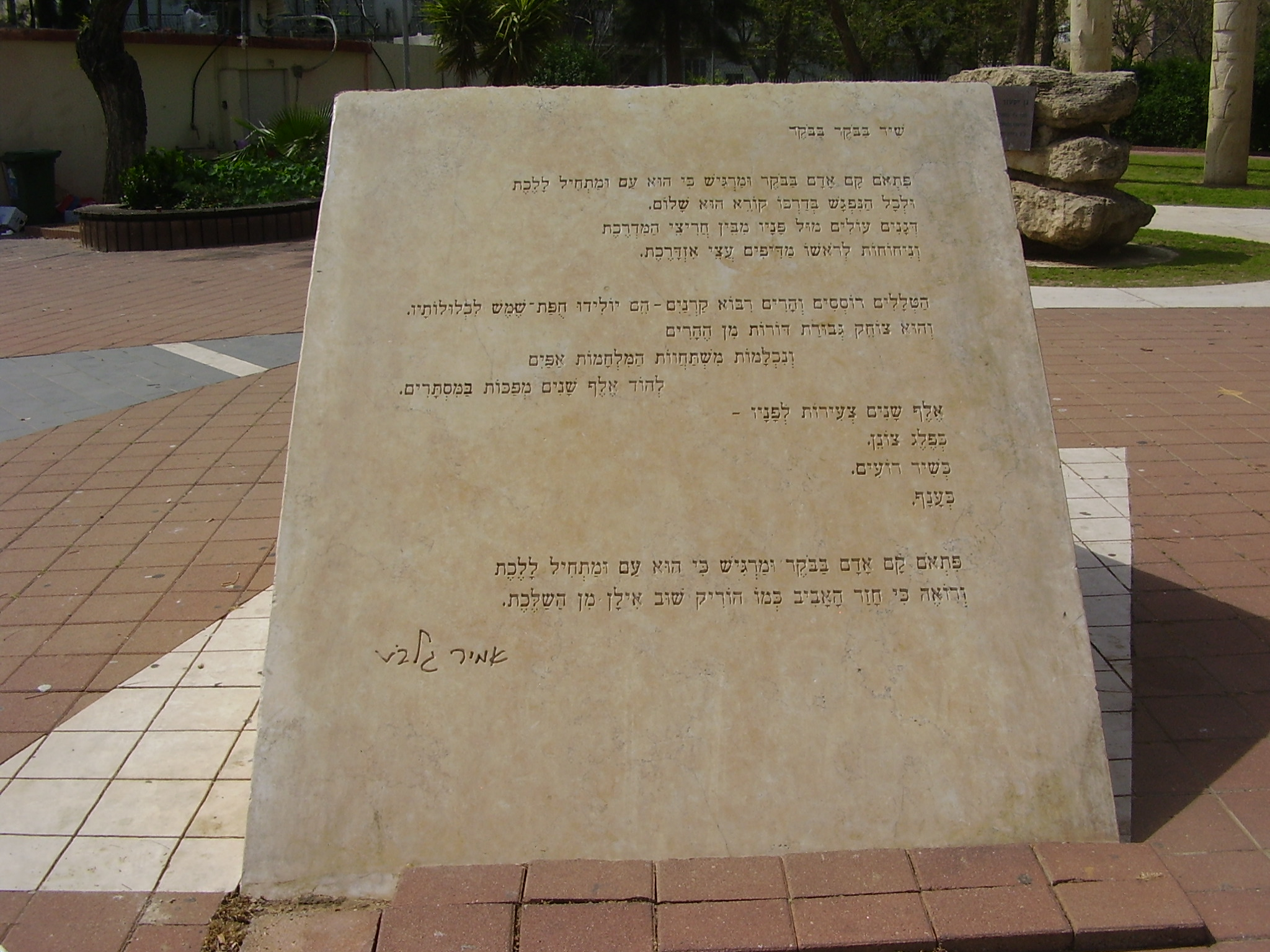 morning song by amir gilboa